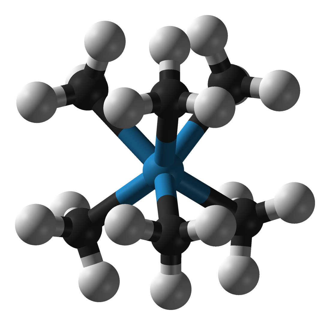 Ball-and-stick model of the hexamethyltungsten molecule, W(CH3)6